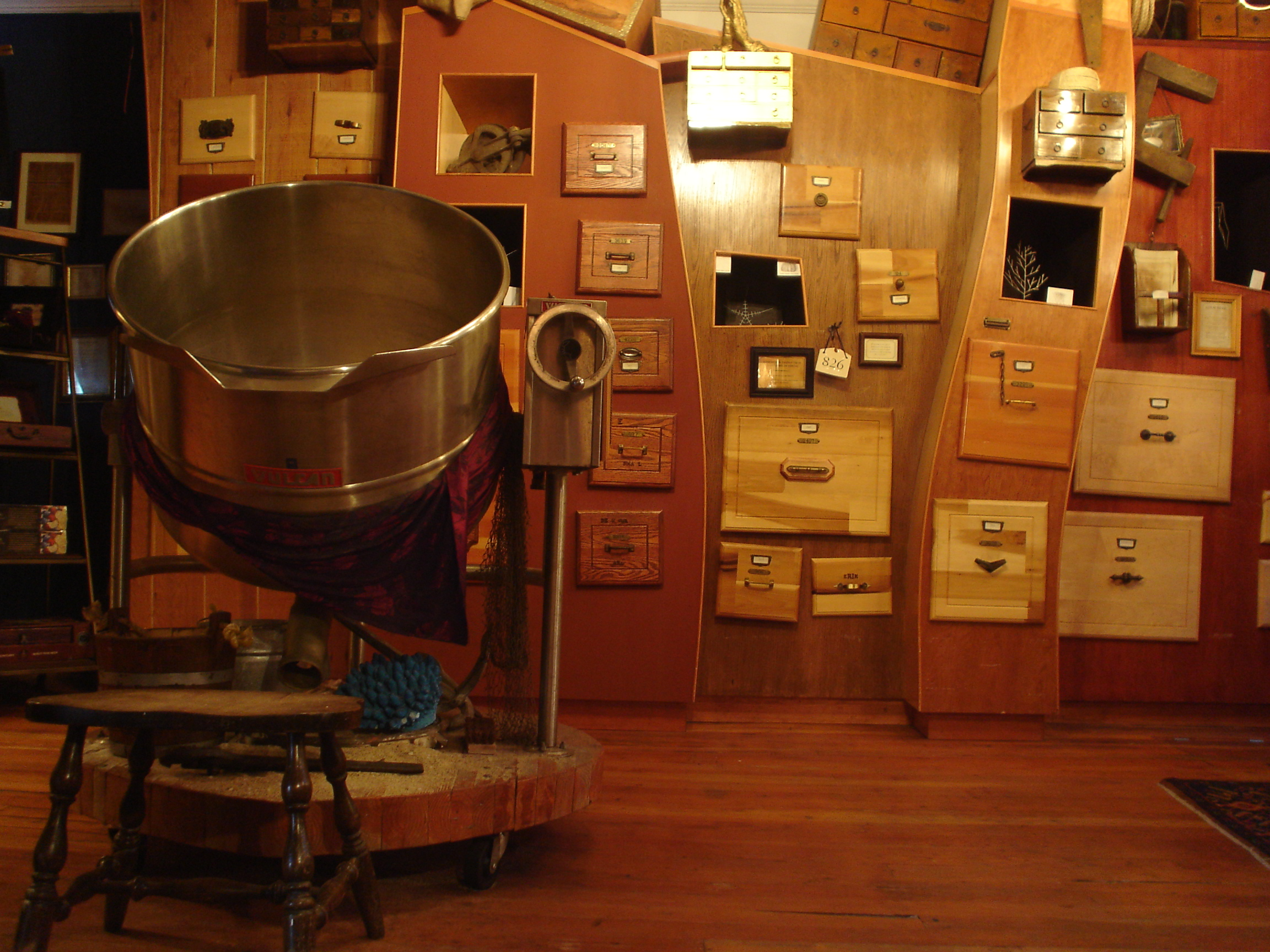 inside 826 Valencia.lots of crazy drawers with crazy contents. And a giant sand crank mixer thingy.